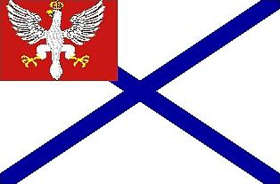 Flag of Congress Poland